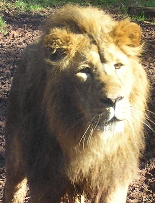 a lion at the zoo